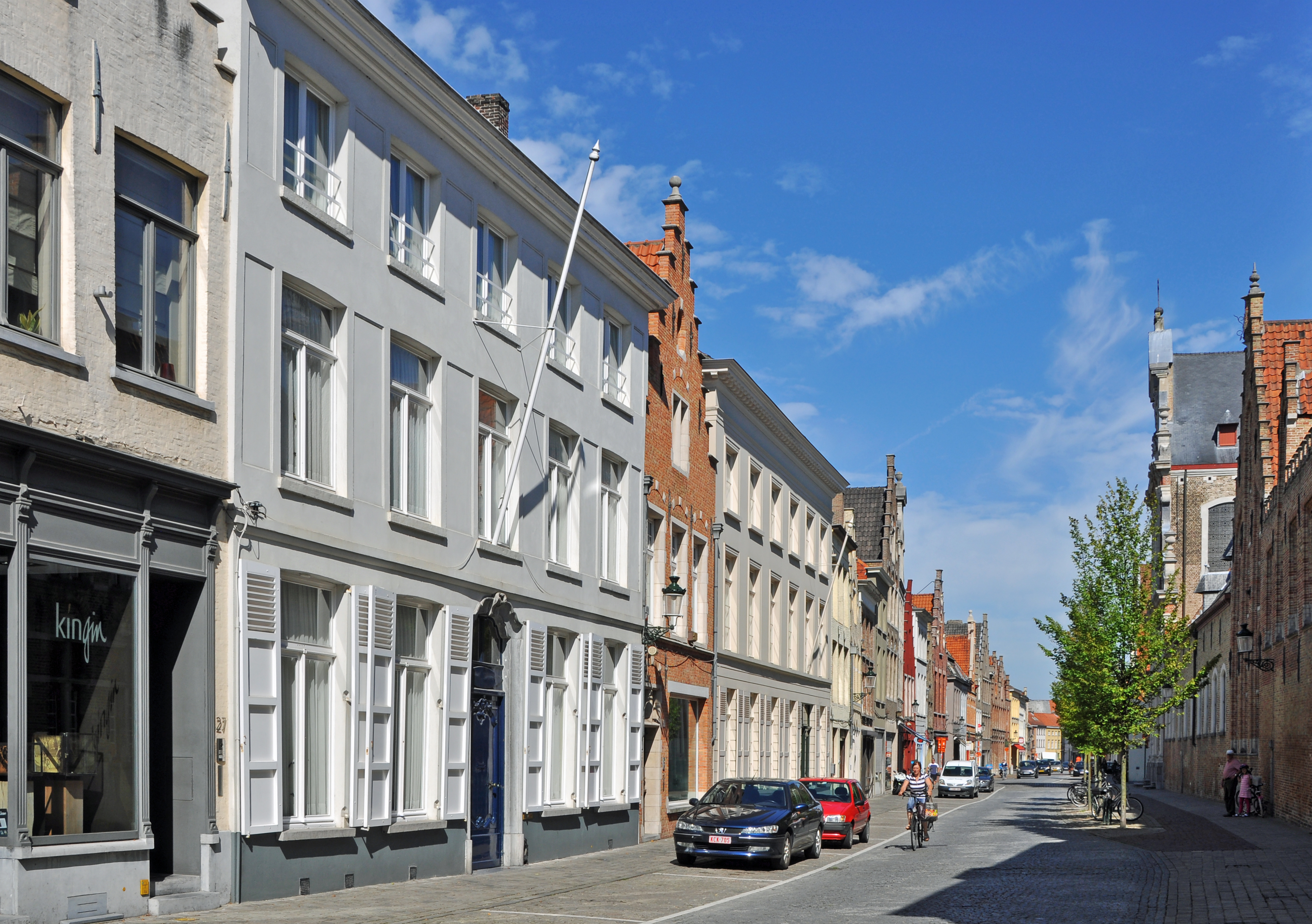 Bruges (Belgium): Ezelstraat